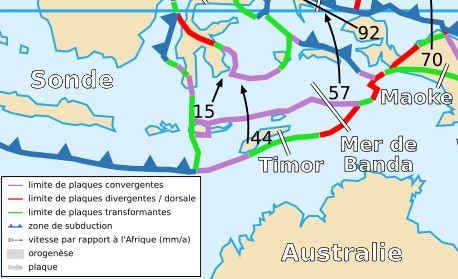 Map of the Timor Plate